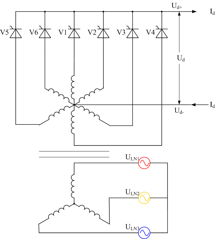 Three-phase full-wave thyristor rectifier circuit using a centre-tapped transformer. This is equivalent to a six-phase half-wave rectifier.